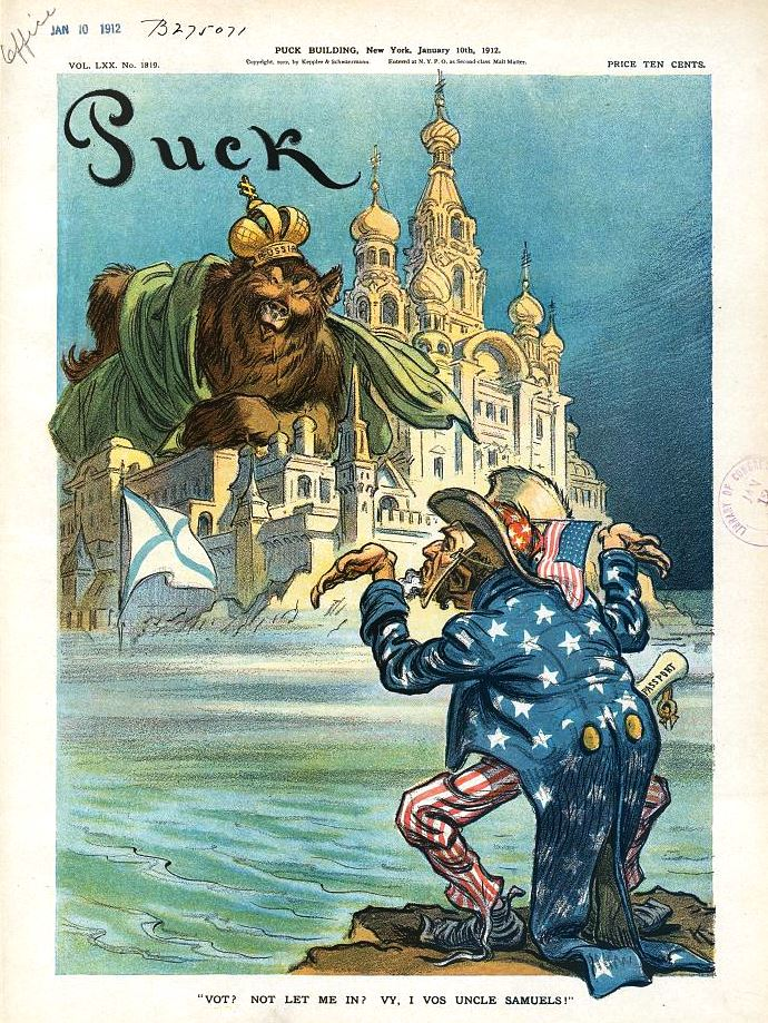 "Vot? Not let me in? Vy, I vos Uncle Samuels!" Illustration shows a Jewish man impersonating Uncle Sam, with a "Passport" in his pocket, standing outside the Moscow city walls trying to gain entry; a large bear wearing a crown labeled "Russia" is leaning over the walls, preventing the man from entering.